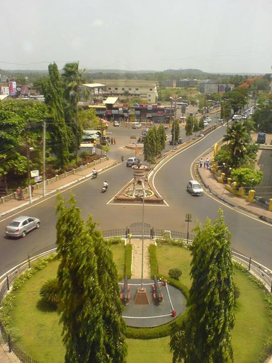 View of Mapusa circle